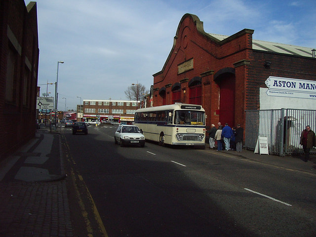 Witton Tram depot and Witton Island, from Witton Lane There's more to Witton Lane than Aston Villa! Aston Manor Transport Museum.